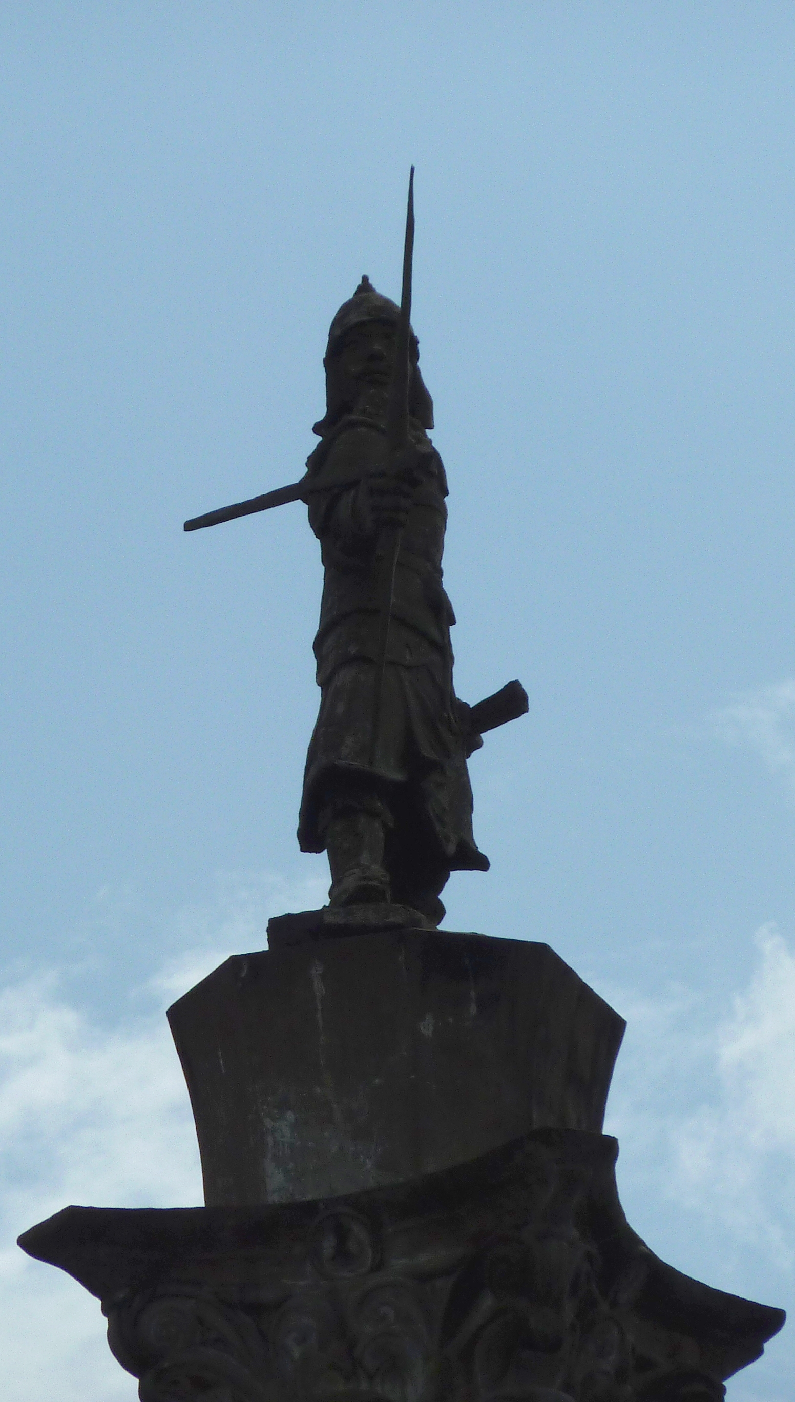 Statue of An Duong Vuong, ruler of Vietnam (257 to 207 BCE) in district 5, Ho Chi Minh City